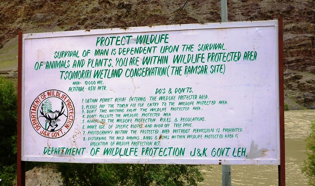 Conservation in Tsomomiri Wetland Conservation, Himachal Pradesh, India